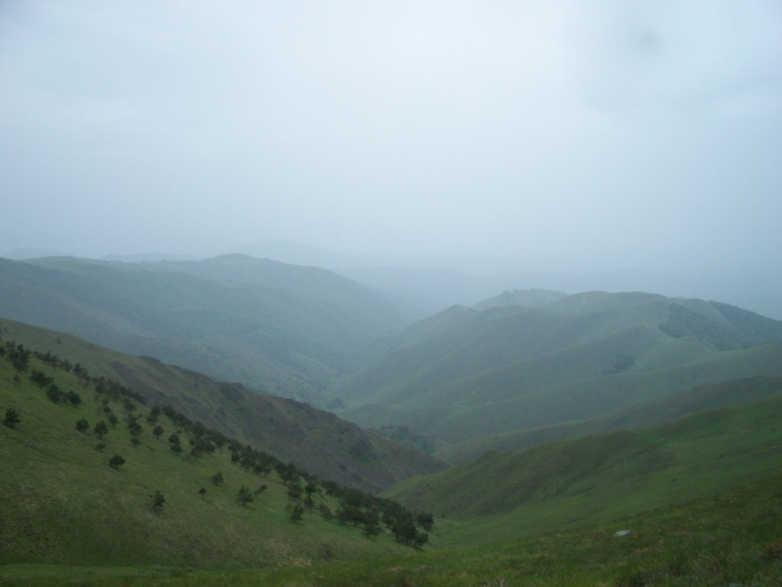 Photos from Heroid Shehu for Wikimedia Commons. Original Filename "Heroid_Shehu/Bajgore, Maja e Bajrakit/100_0805.jpg"